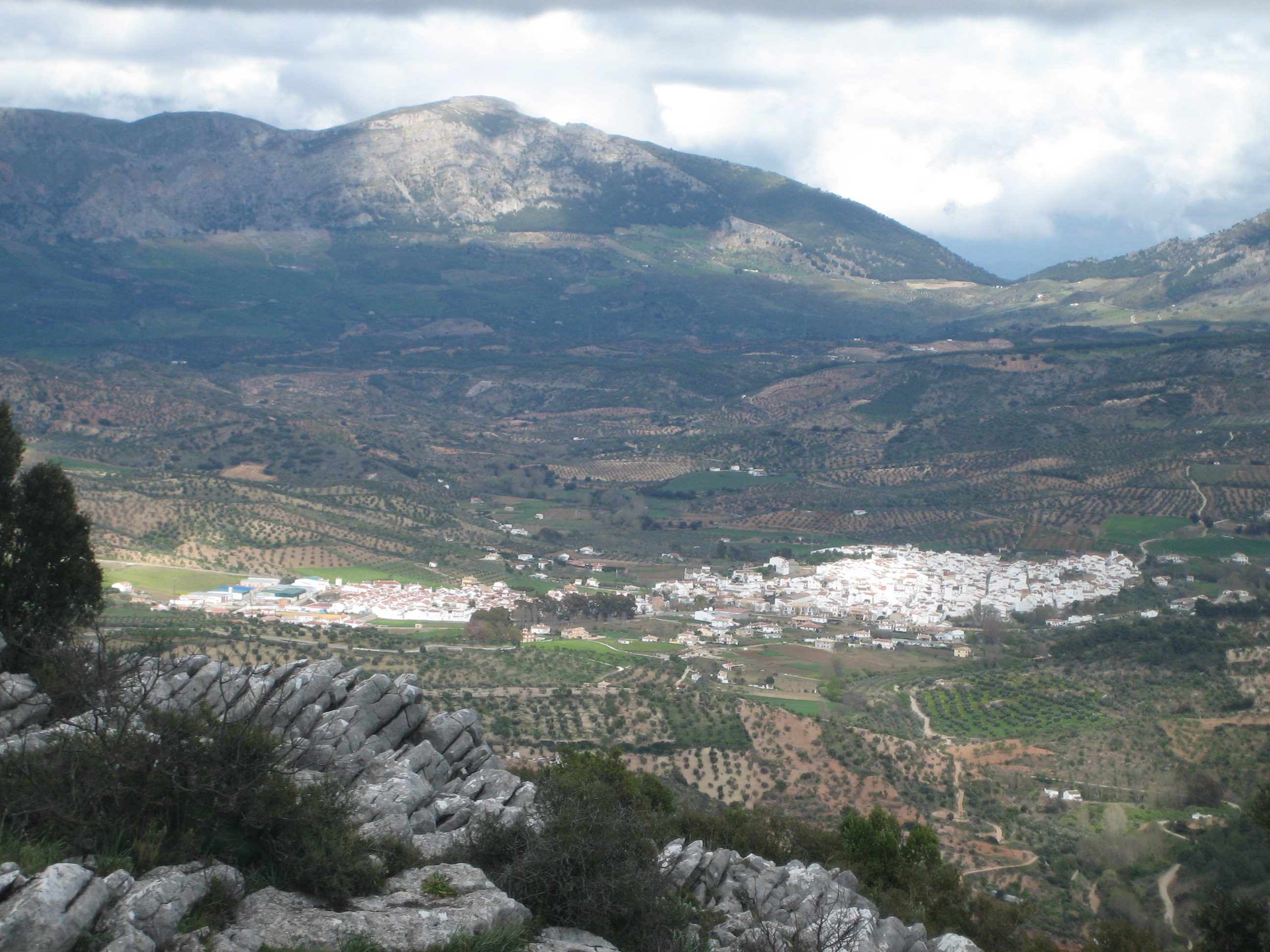 The village of El Burgo, Malaga in Andalusia, Spain, as viewed from a hilltop to the west.